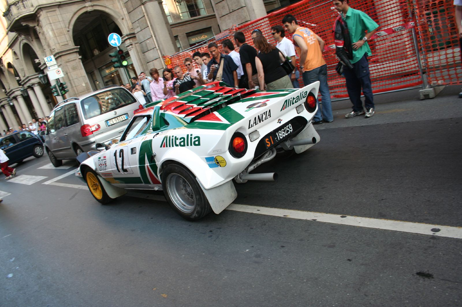 Lancia Stratos HF at the Lancia centenary celebrations in Turin in 2006.